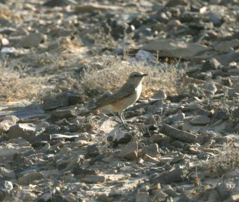 Red-tailed Wheatear Oenanthe chrysopygia, Ras al-Jinz, Oman